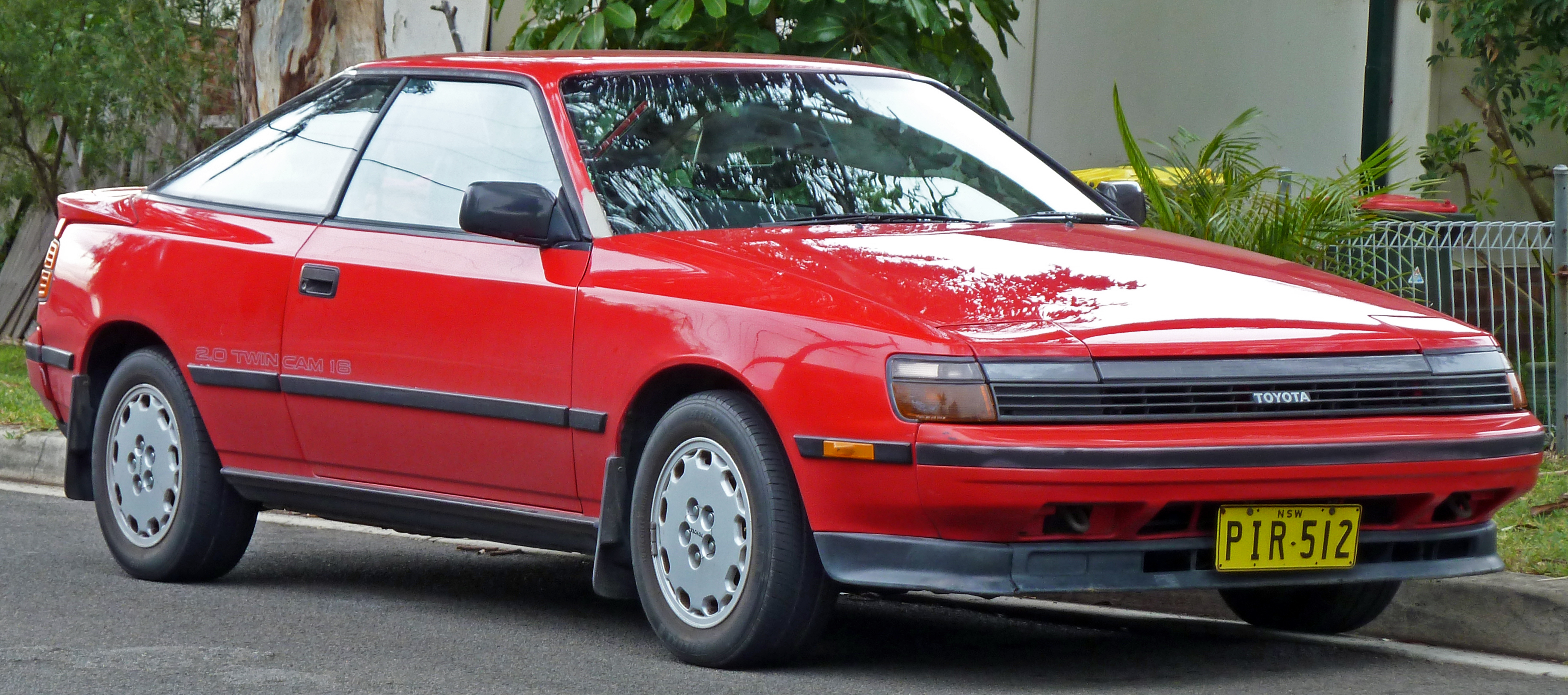 1989 Toyota Celica (ST162) SX liftback. Photographed in Woolooware, New South Wales, Australia.